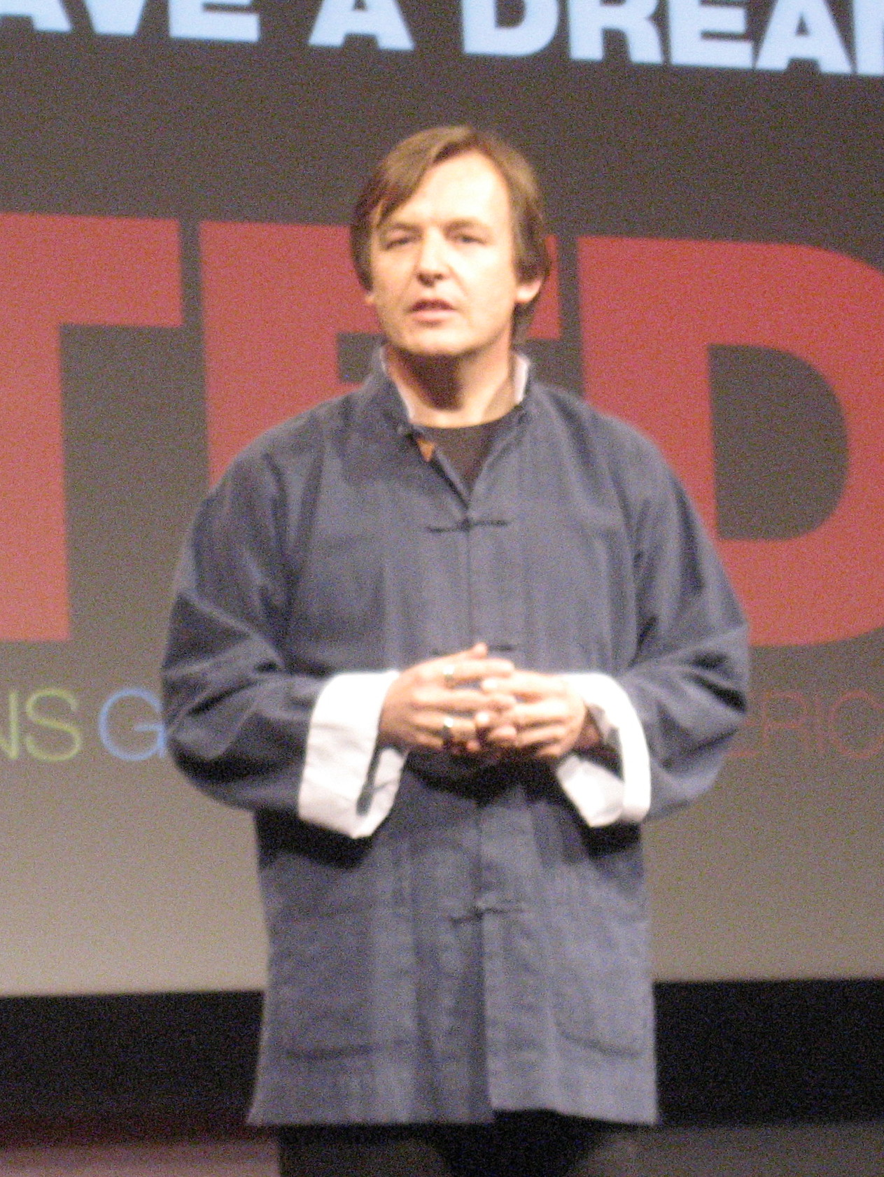 Chris Anderson is the curator of the TED (Technology, Entertainment, Design) Conference